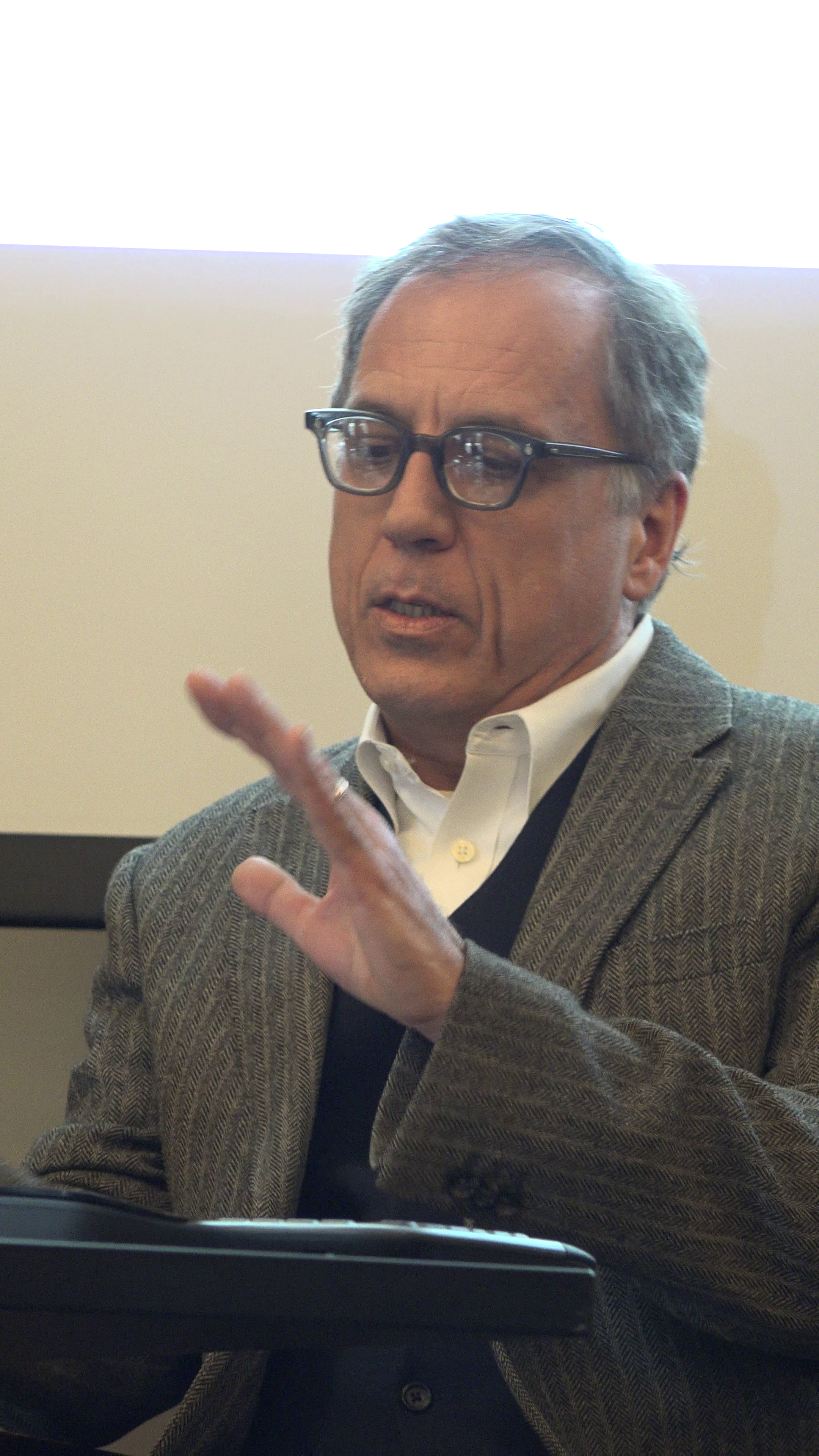 David Hadju at Columbia University